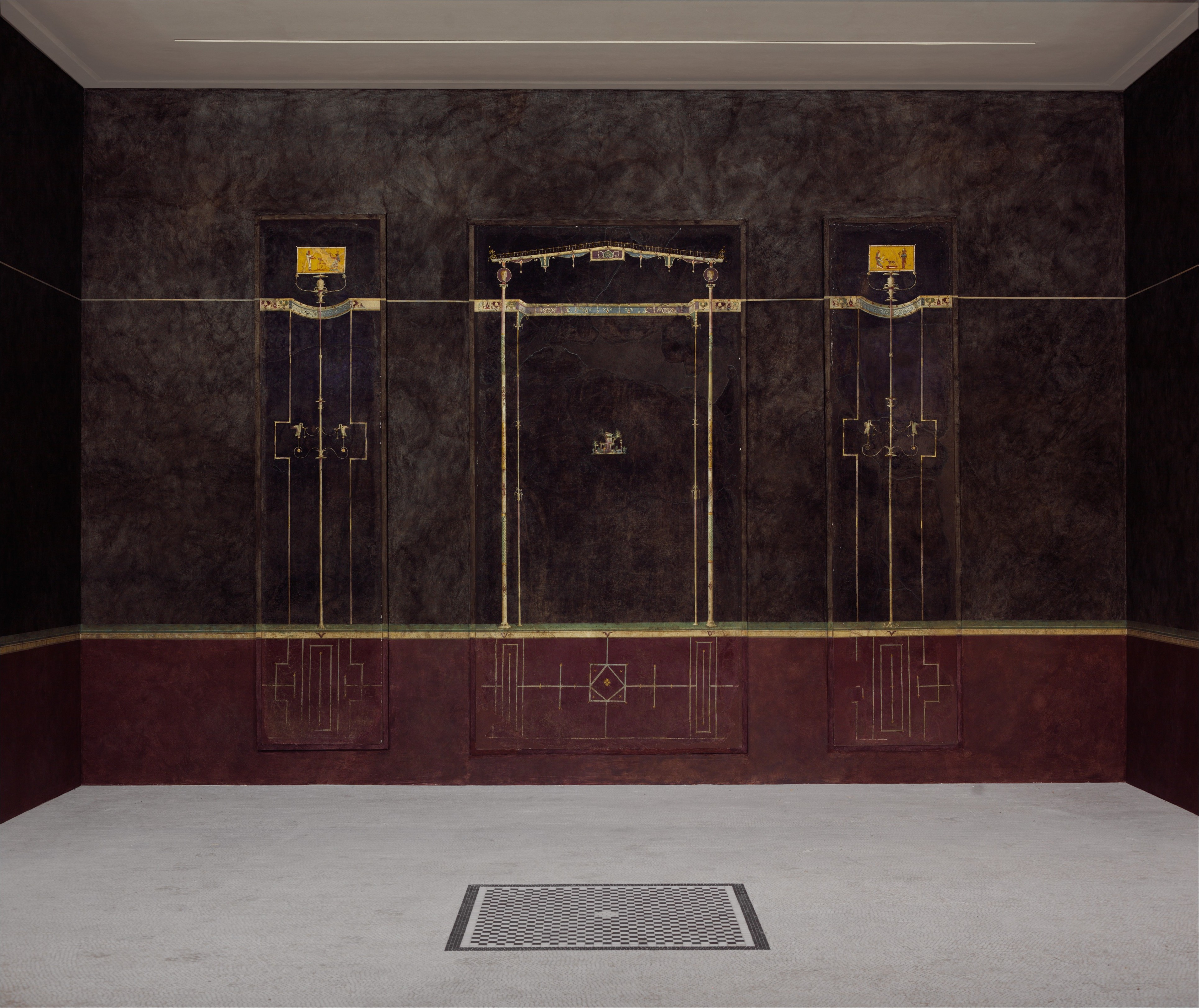 The candelabra and pavilion that were on the north wall of the Black Room, cubiculum 15, in the Villa at Boscotrecase.